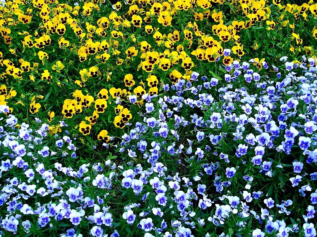 Lots of pansys